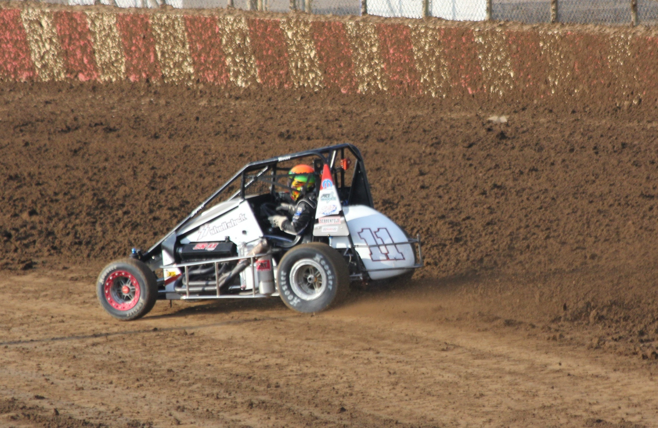 The USAC National Midget car of Brady Bacon at Angell Park Speedway. He was the 2014 USAC National Sprint Car champion.